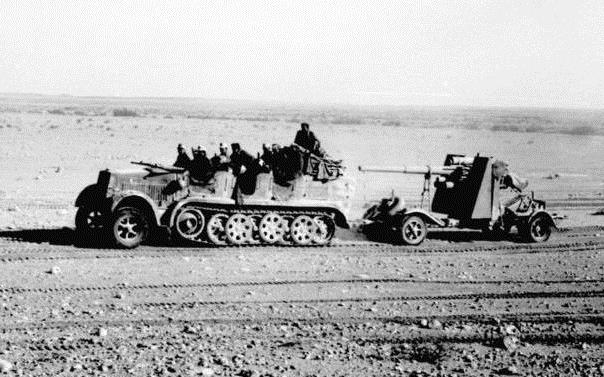 This is a cropped version of the image "Bundesarchiv Bild 101I-783-0109-19, Nordafrika, Zugkraftwagen mit Flak" existing at Wikimedia Commons